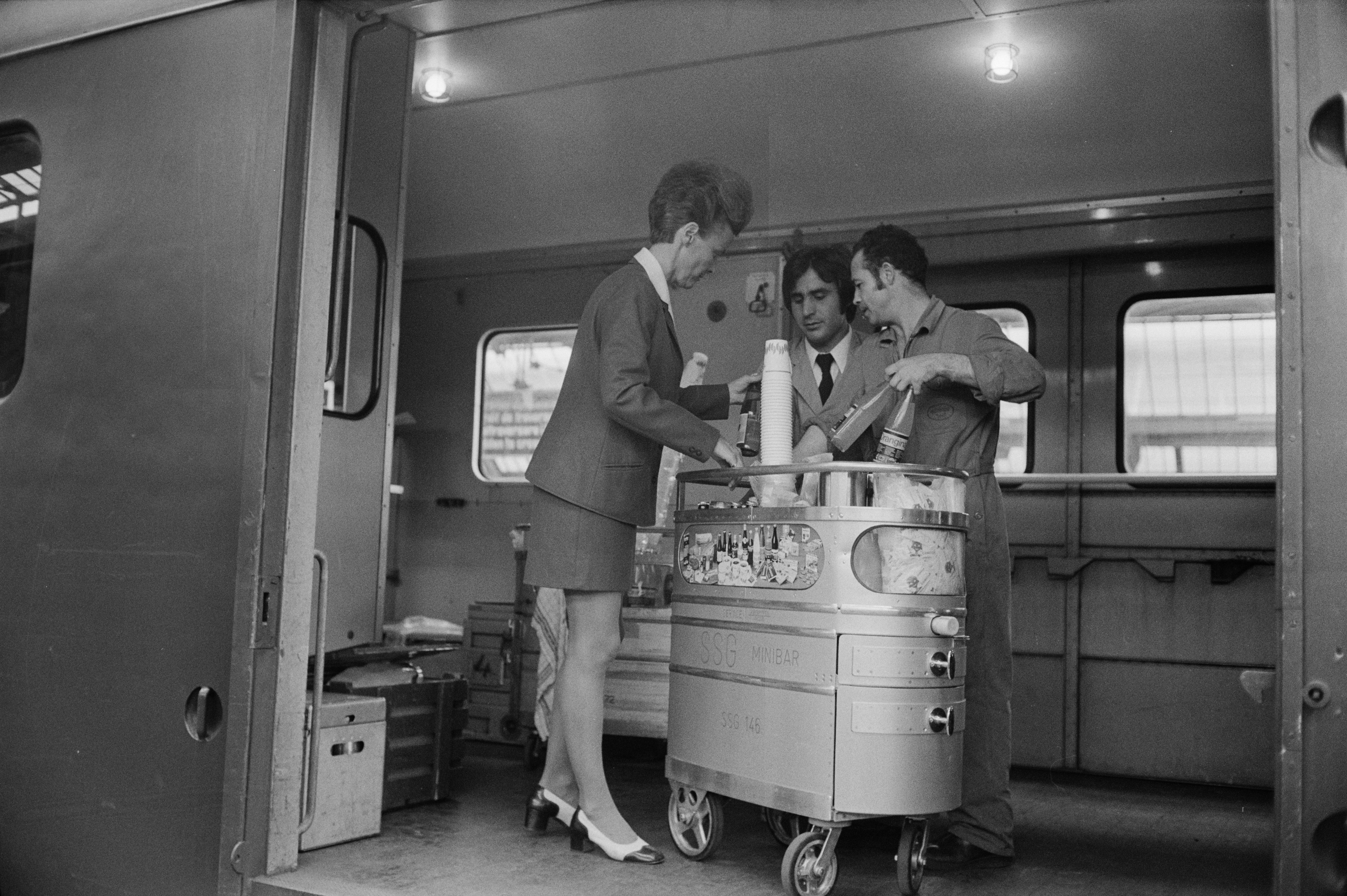 Catering trolley of the Swiss dining car company inside a SBB CFF FFS baggage car.